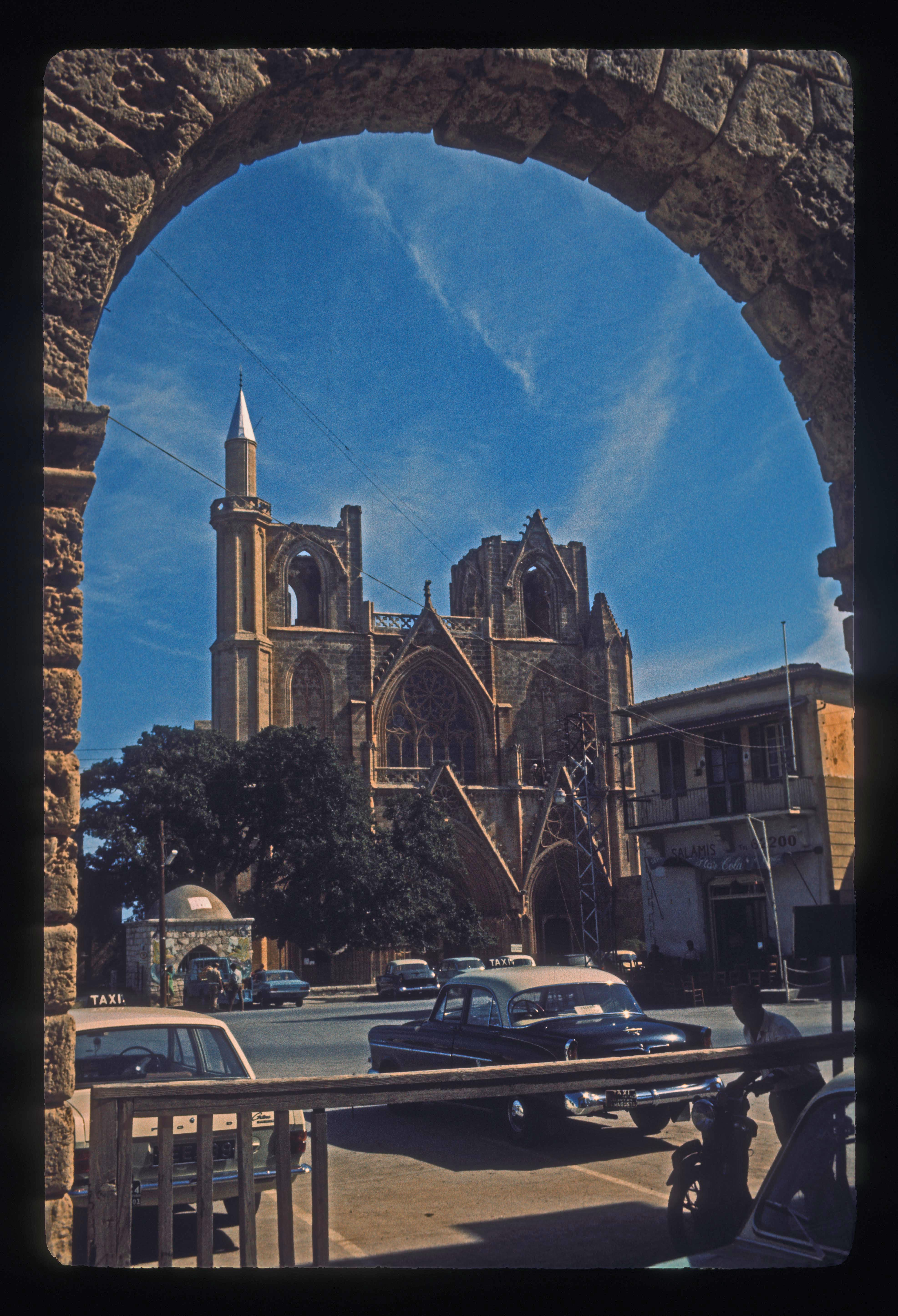 THE LUSIGNAN KINGS WERE CROWNED KINGS OF JERUSALEM AFTER THEY WERE OUSTED FROM THE HOLY LAND